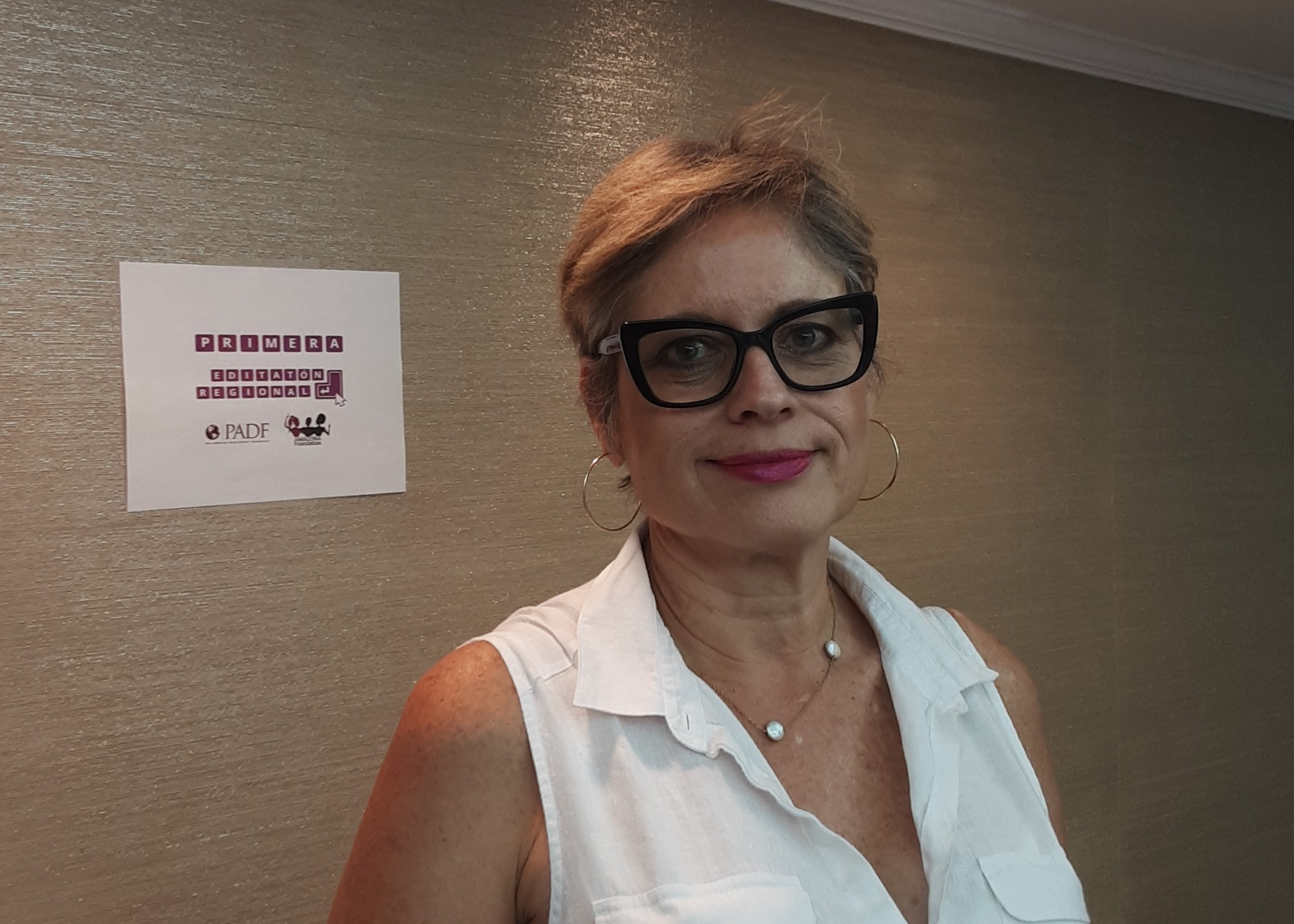 Adriana D'Elia Briceño at the first editathon of the Pan American Development Foundation